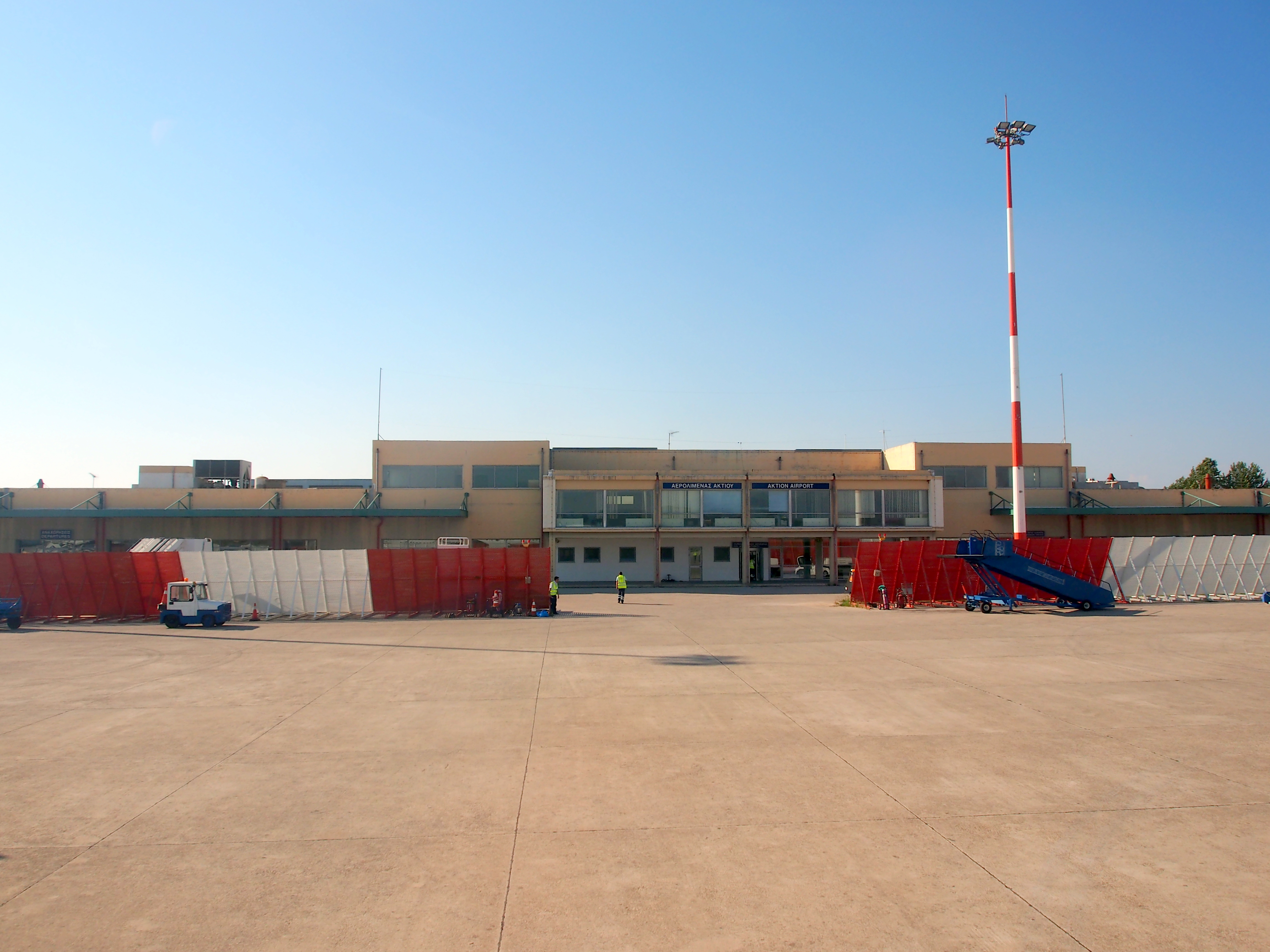 Photographed in Lefkada, Greece.